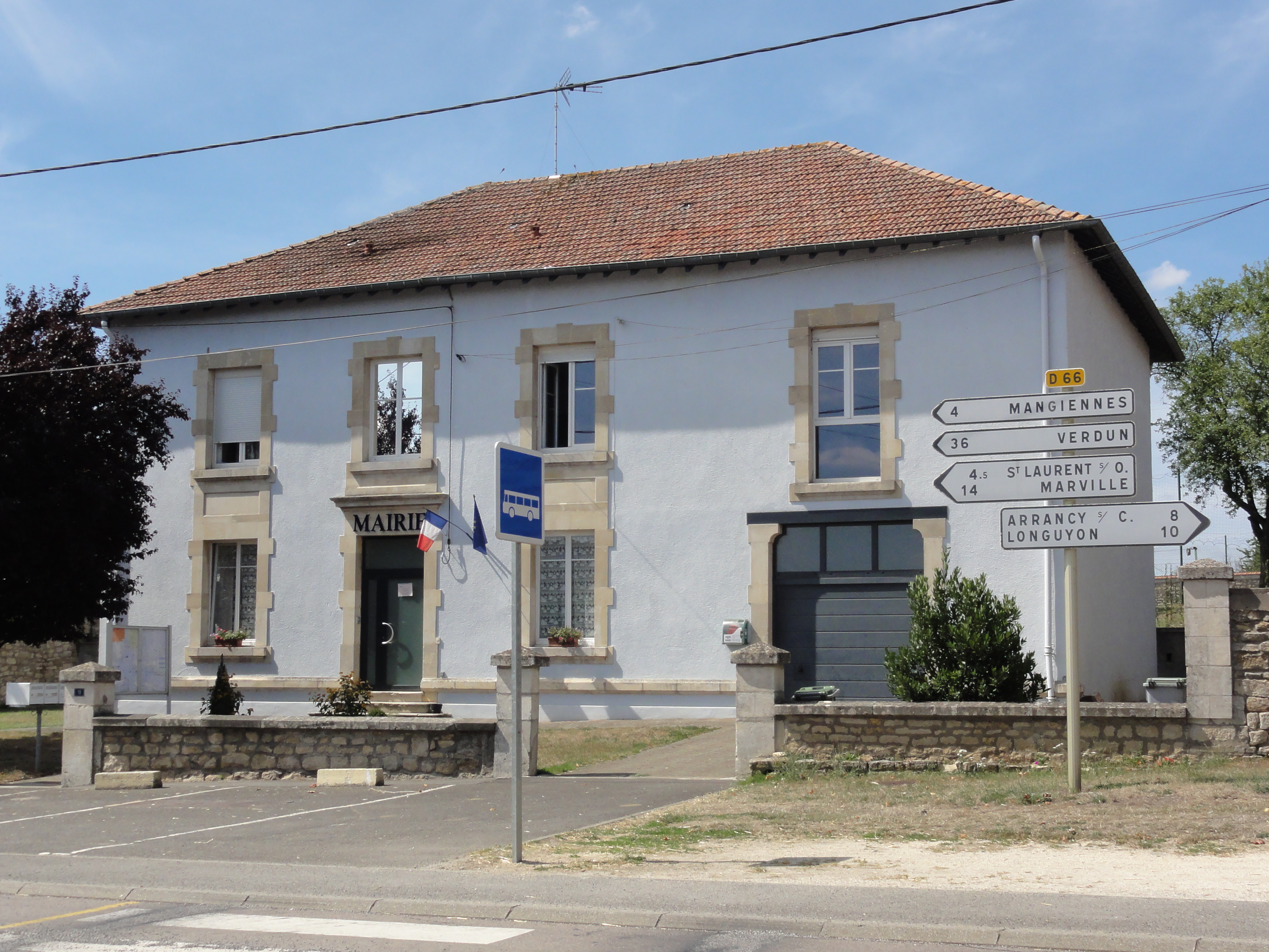 Pillon (Meuse) mairie